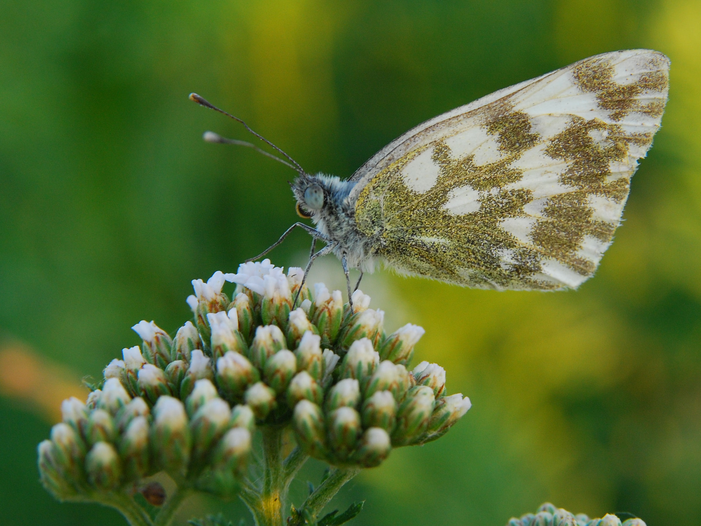 Bath White, Pontia daplidice, Bielinek rukiewnik